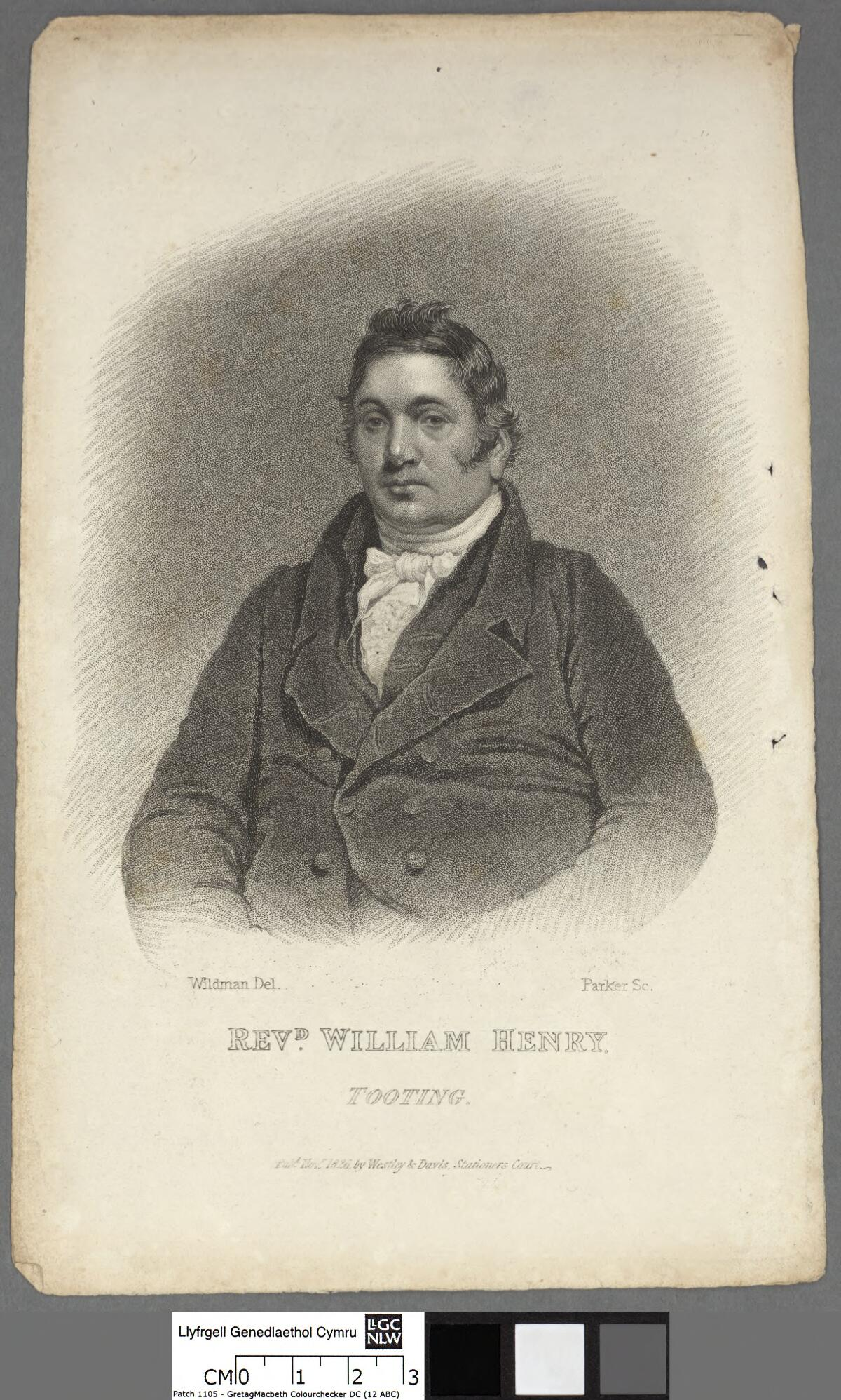 A portrait from the Welsh Portrait Collection at the National Library of Wales. Depicted person: William Henry – (1770-1859) preacher